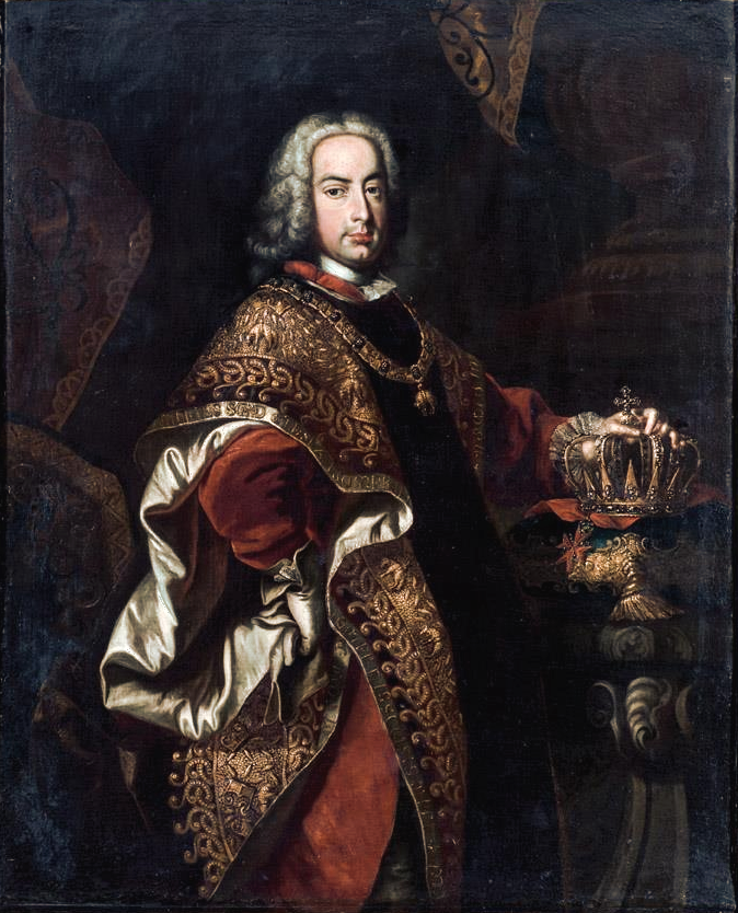 Francesco II Stefano, Grand Duke of Tuscany (1708-1765)